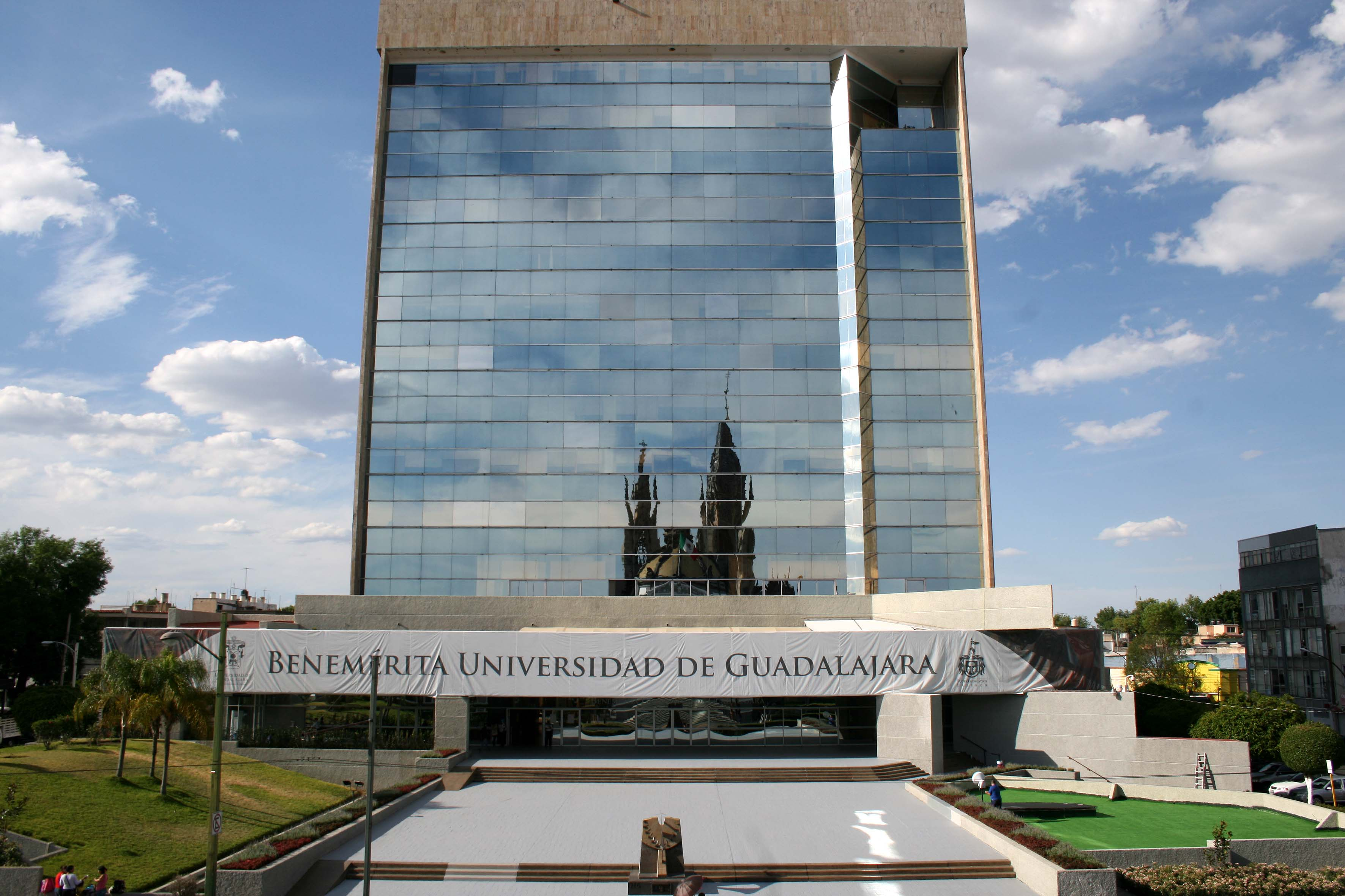 Rectoría